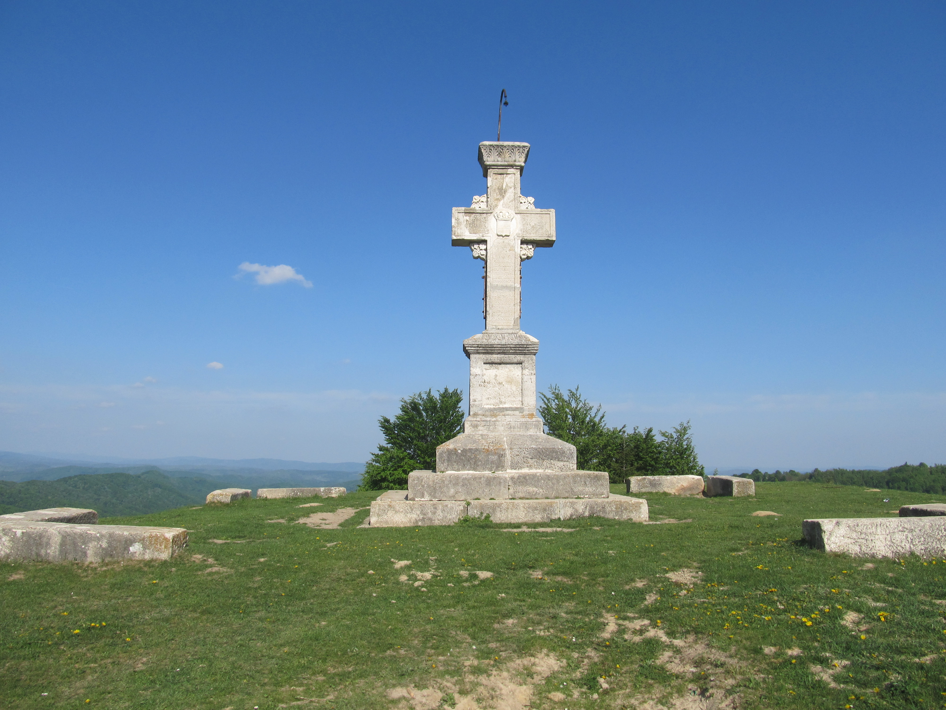 Ruler's Cross, monument erected in 1866 in the Romanian village of Melicești, municipality of Telega, work of architect Paul Focșeneanu.